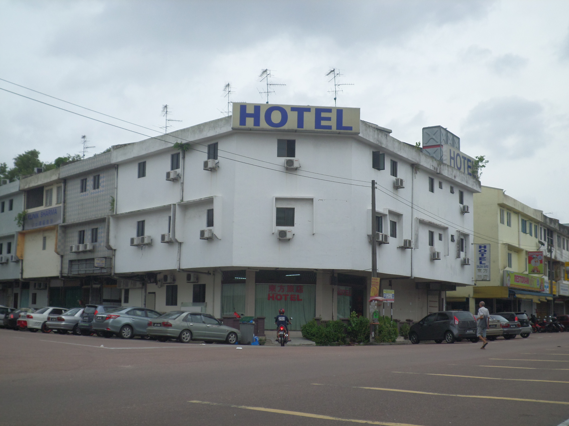 Skudai Baru Hotel, Skudai, Iskandar Puteri, Johor, Malaysia